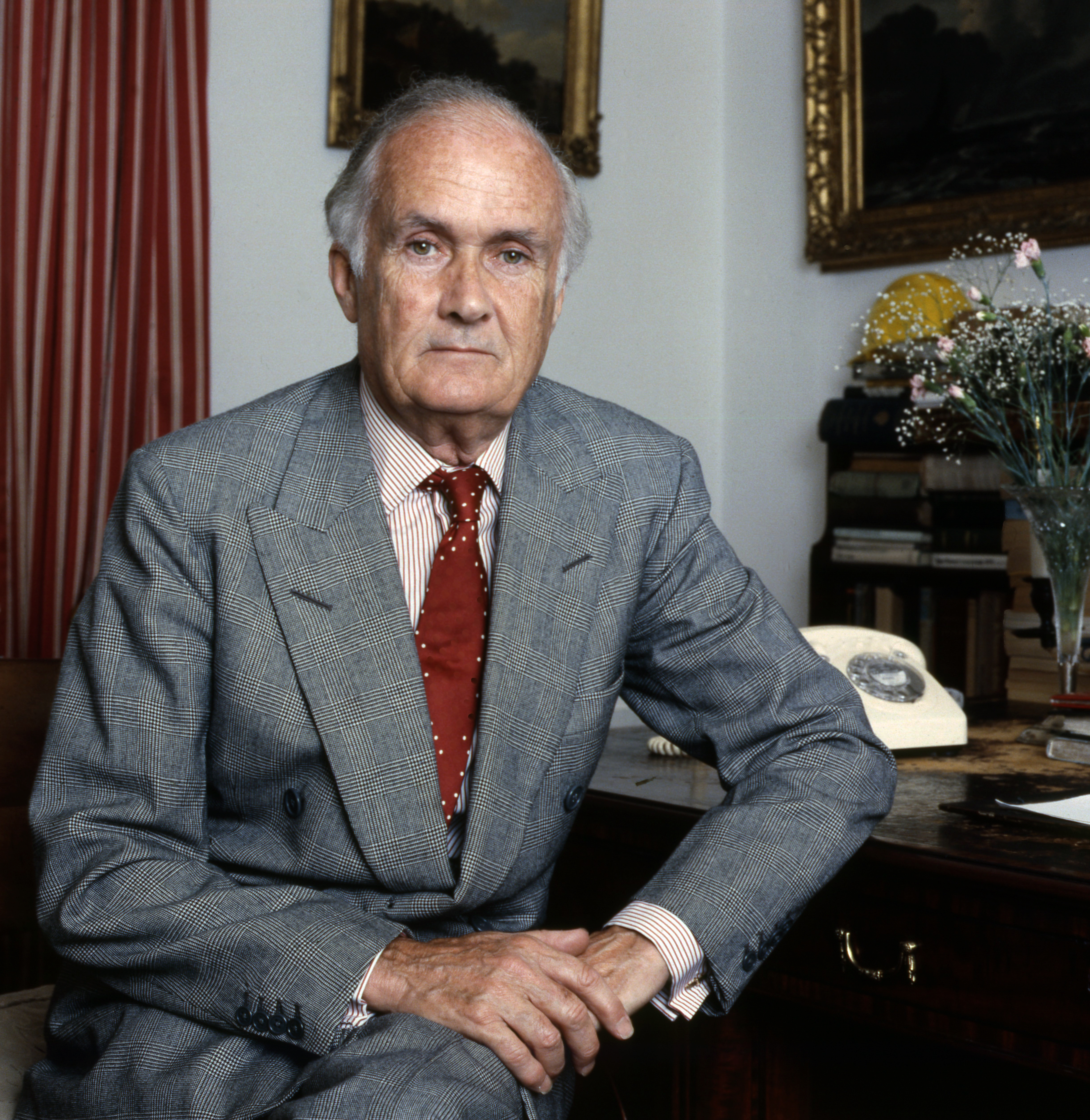 Charles John Robert Manners, 10th Duke of Rutland in his Study Belvoir Castle Note: this picture is reversed, as can be seen from the dial face of the telephone and the cut of the jacket (breast pocket and buttons on wrong side). The true orientation is shown in File:10th Duke of Rutland Allan Warren.jpg